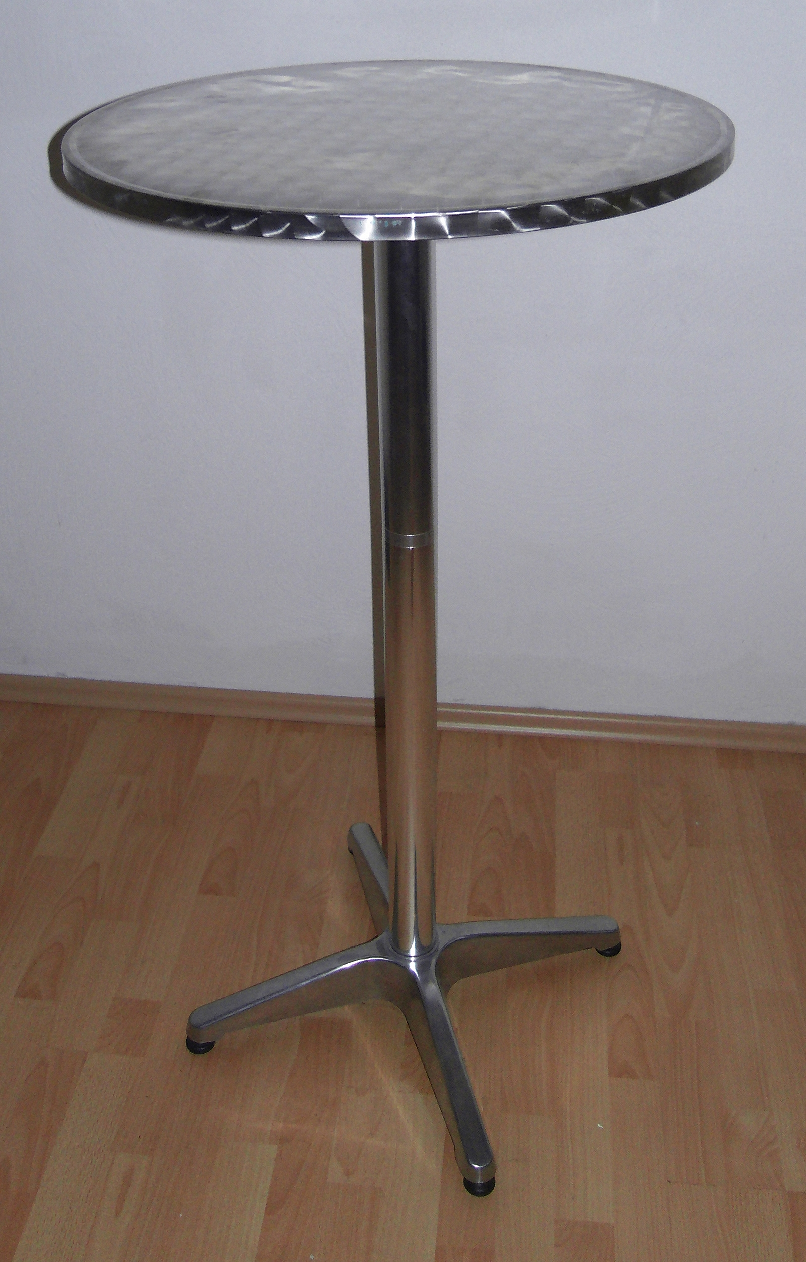 Standing table